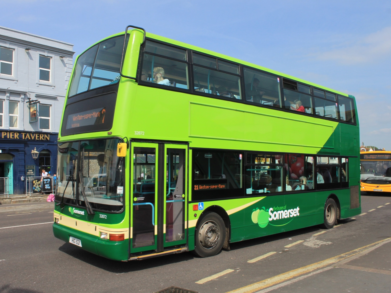 Plaxton President HIG1521 (First Group 32872) in its new Buses of Somerset livery in Pier Street, Burnham-on-SEa, on its way to Weston-Super-Mare.